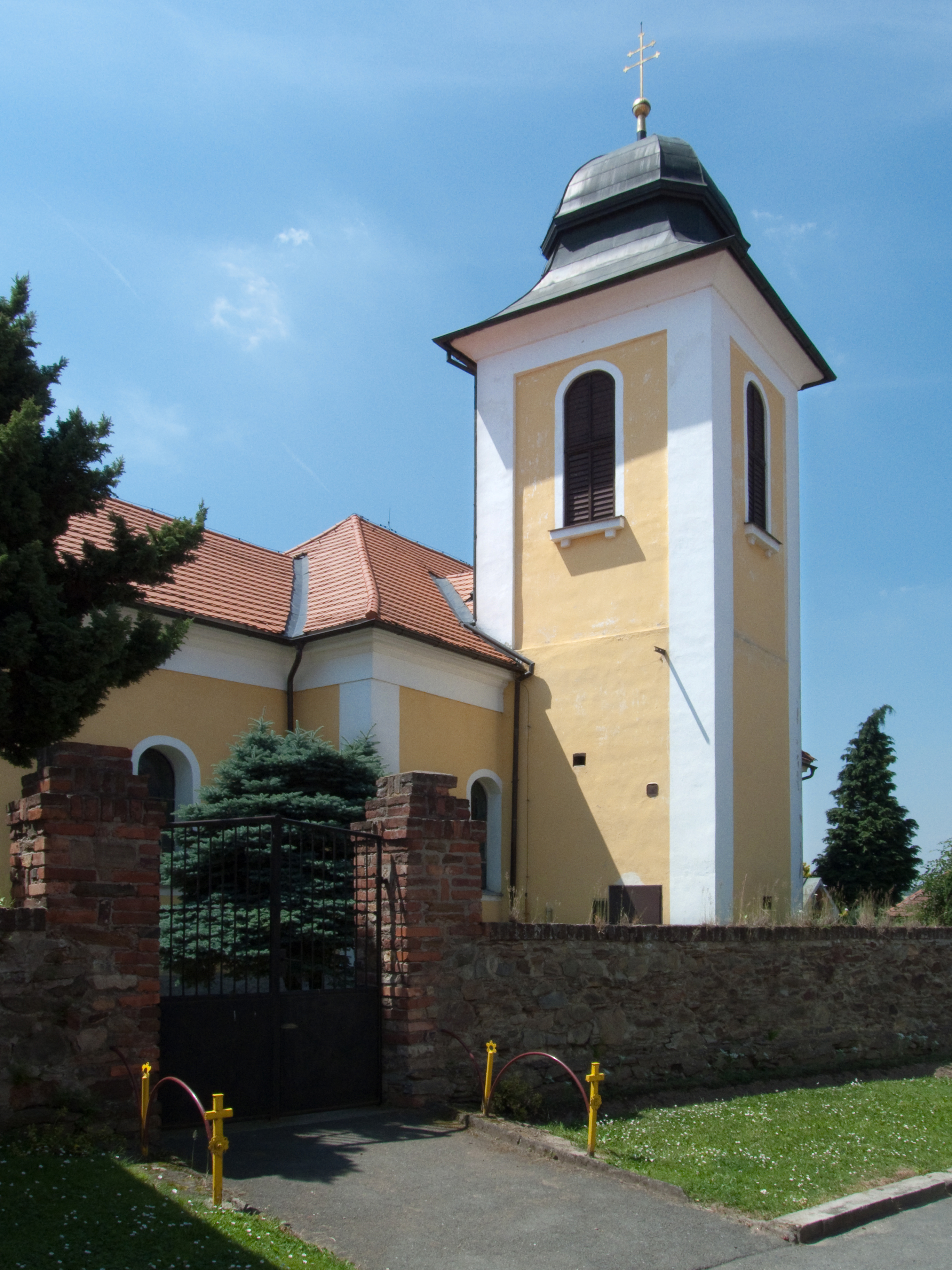 Saints Peter and Paul Church in the village of Zdislavice, Benešov district, Czech Republic